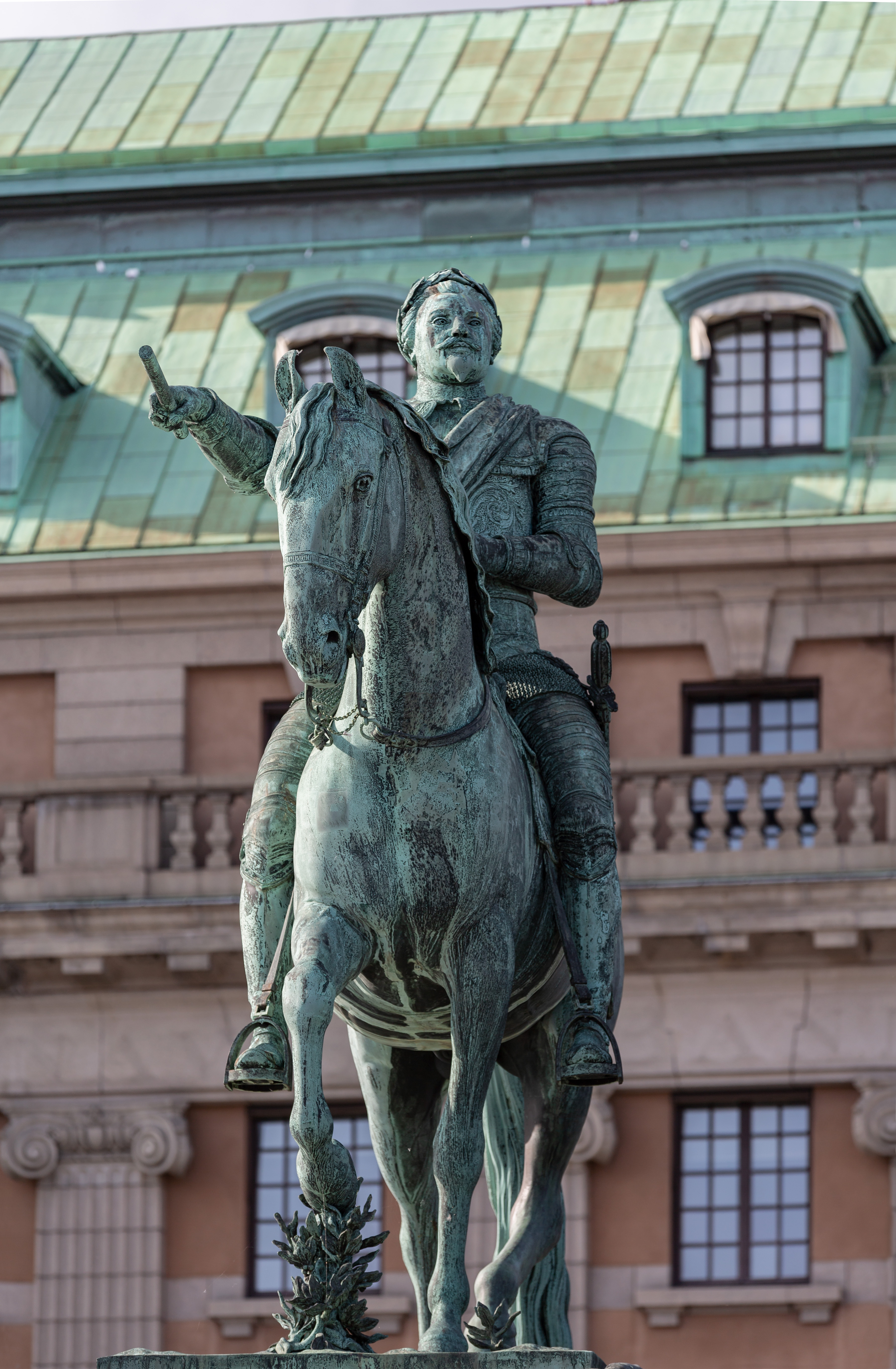 Statue of Gustav II. Adolf at Gustav Adolfs torg in Stockholm, Sweden.